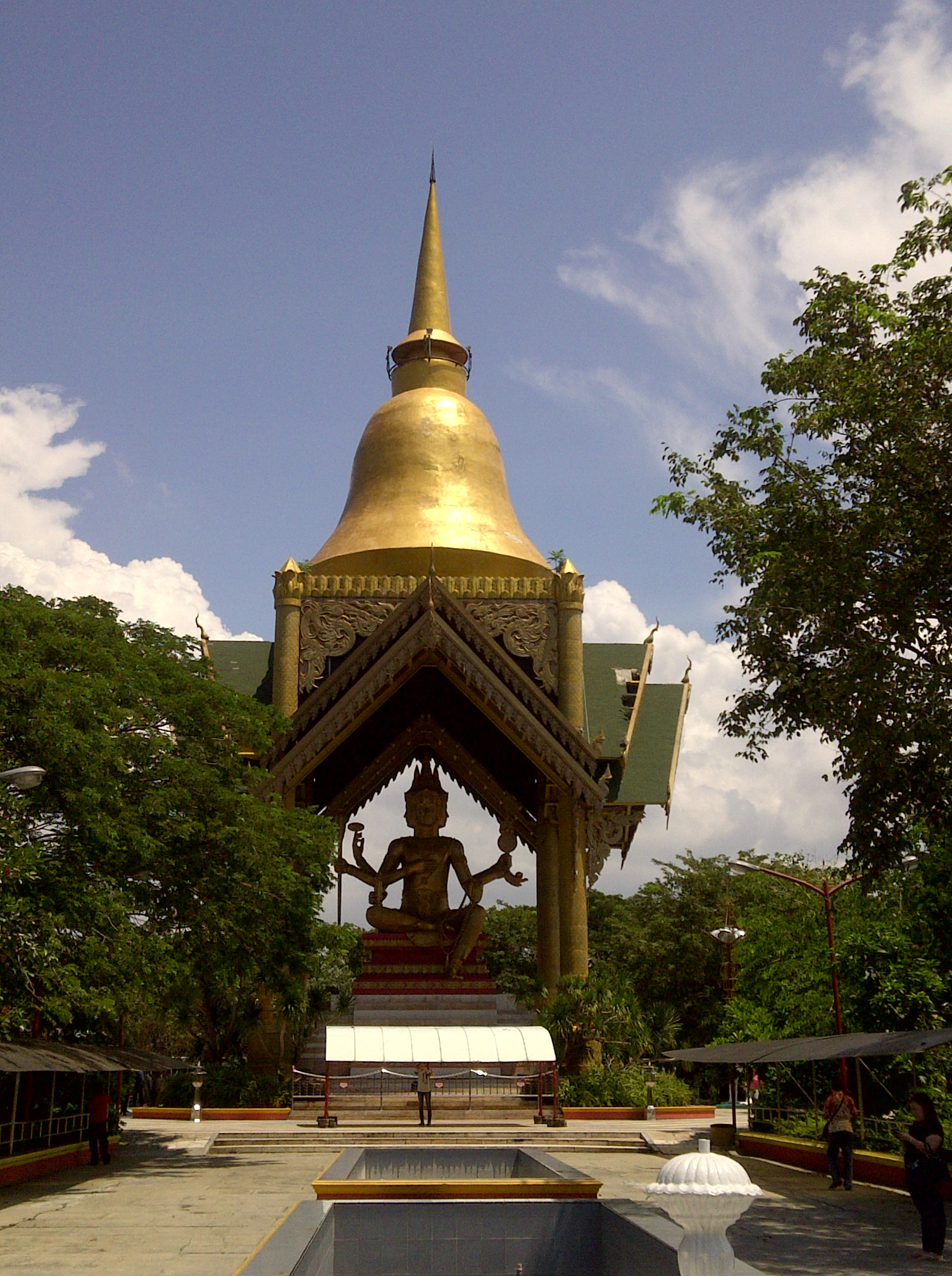 Gold covered giant She Mien Fo Statue at Sanggar Agung Temple in 2013, Surabaya, Indonesia